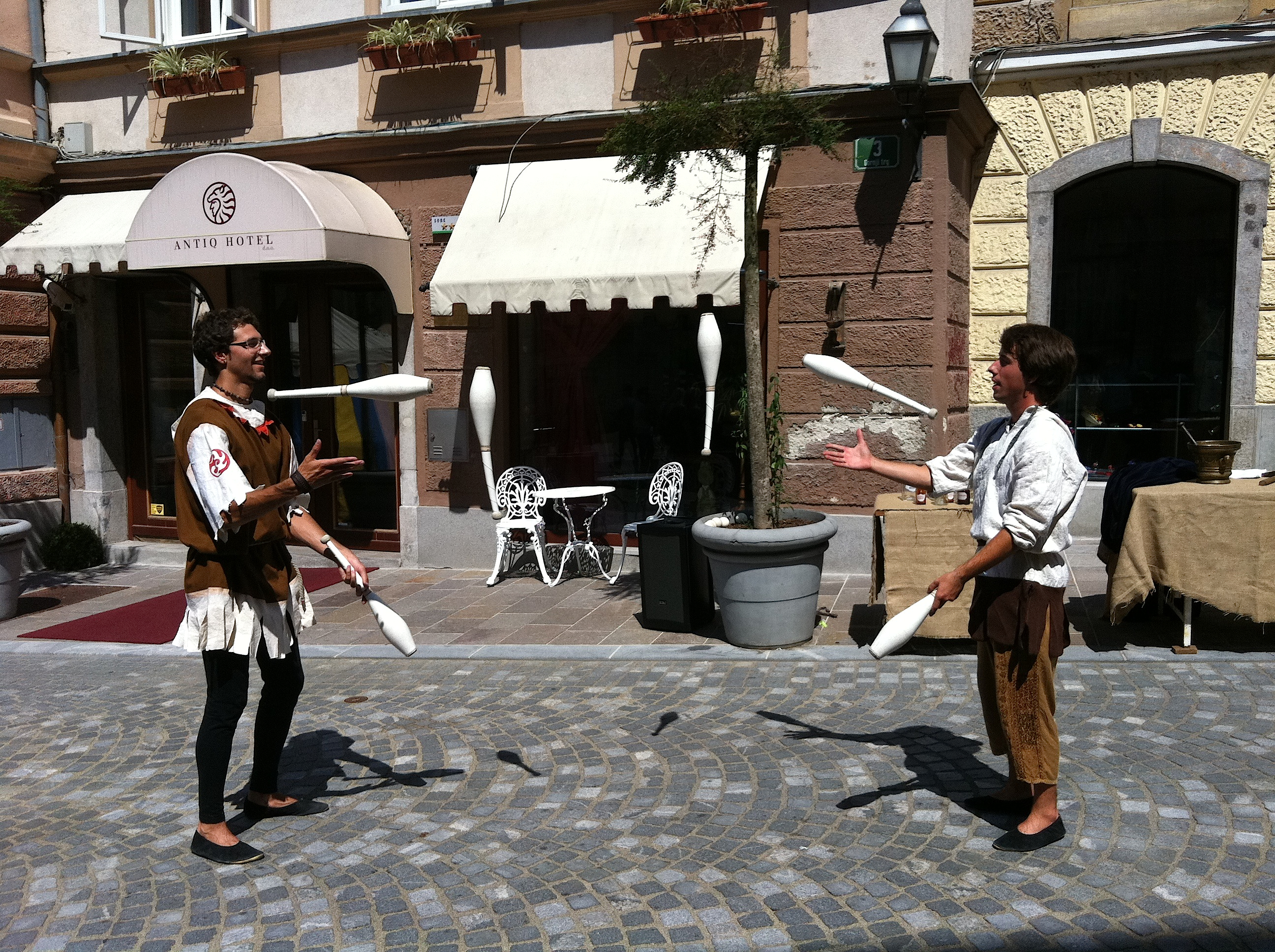 Jugglers at Ljubljana Stari trg (old square)